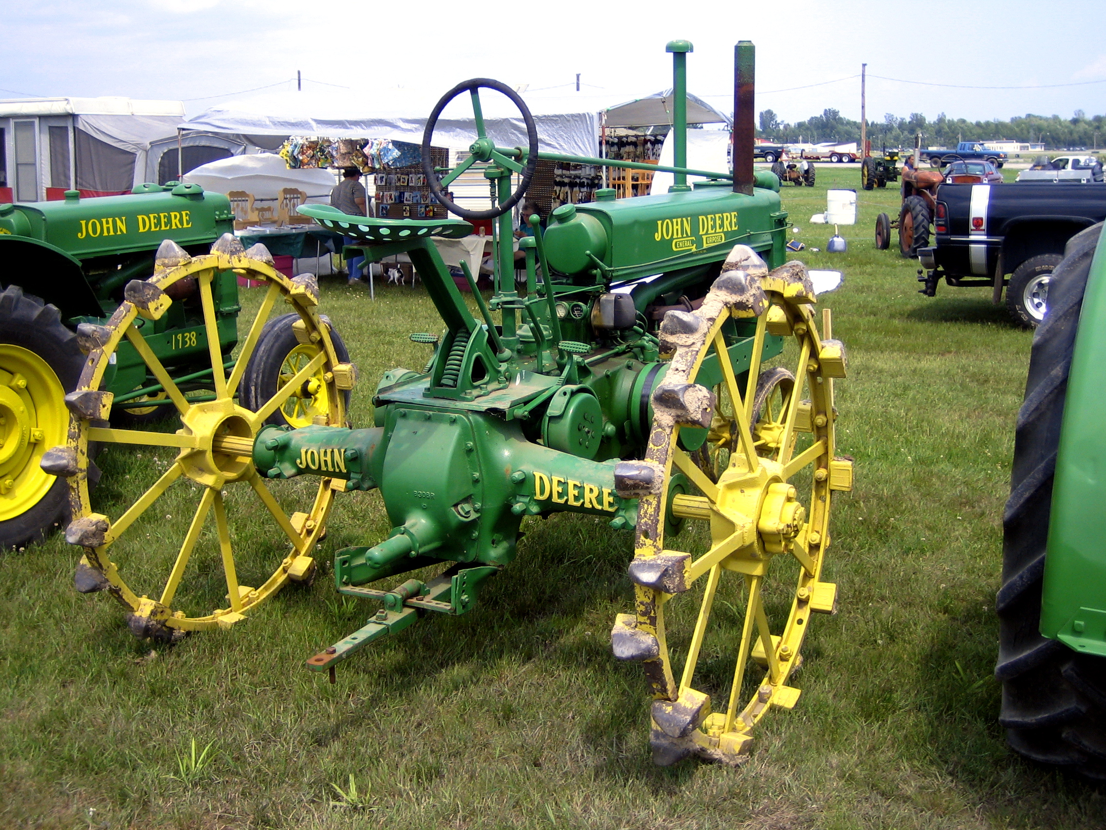 An old John Deere GP tractor